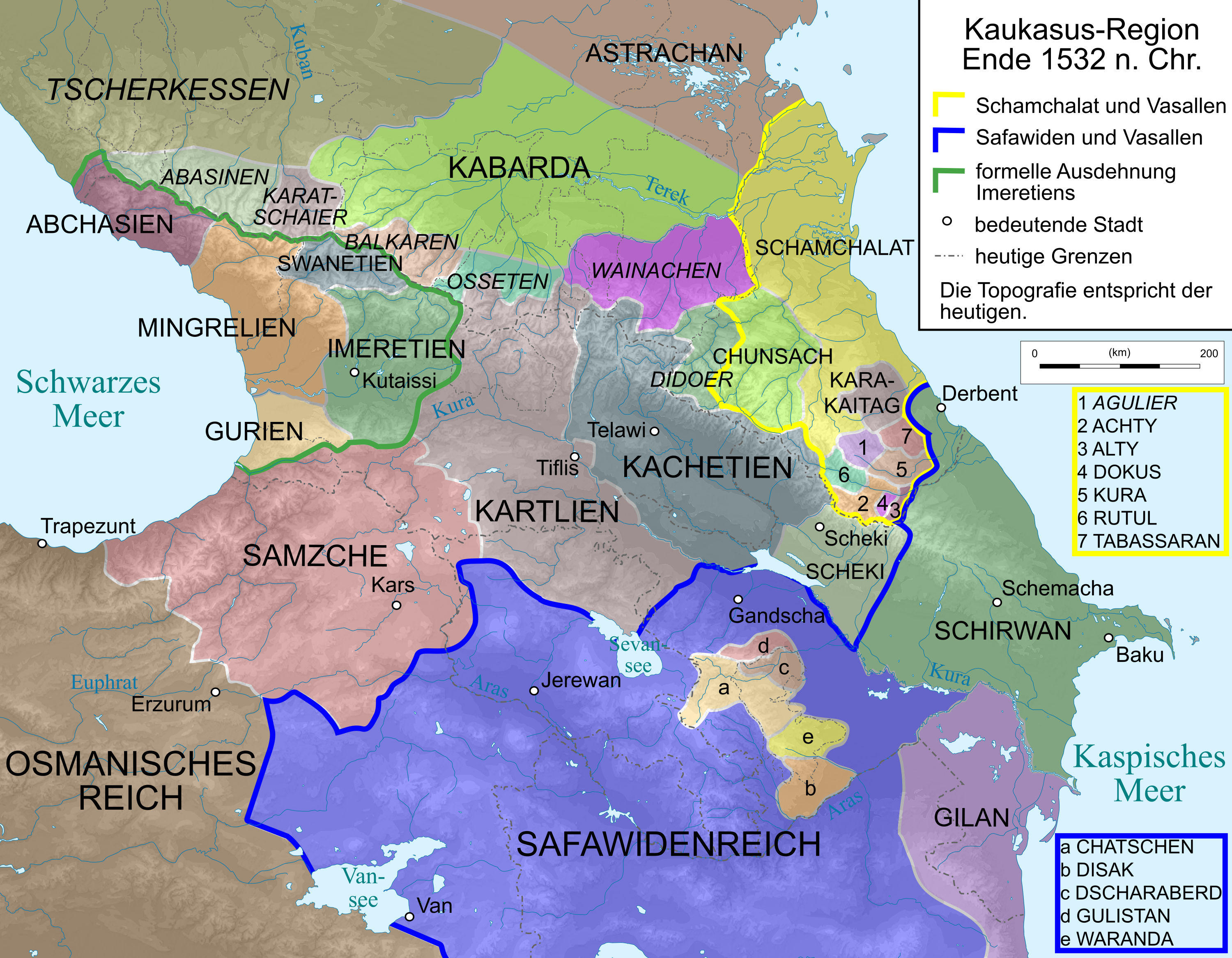 Map of Caucasus Region 1530 in German.